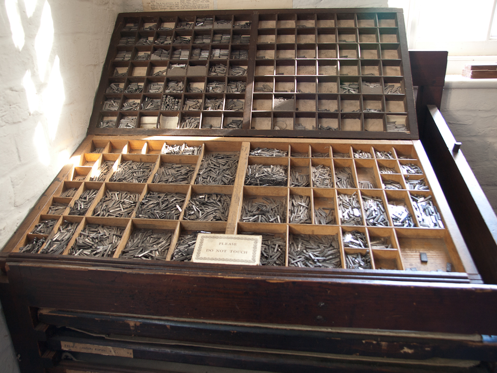 Upper case and lower case types for a typical eighteenth century printing press. "Upper case" and "Lower case" of a typewriter is based off these type letters.